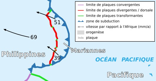 Map of the Mariana Plate